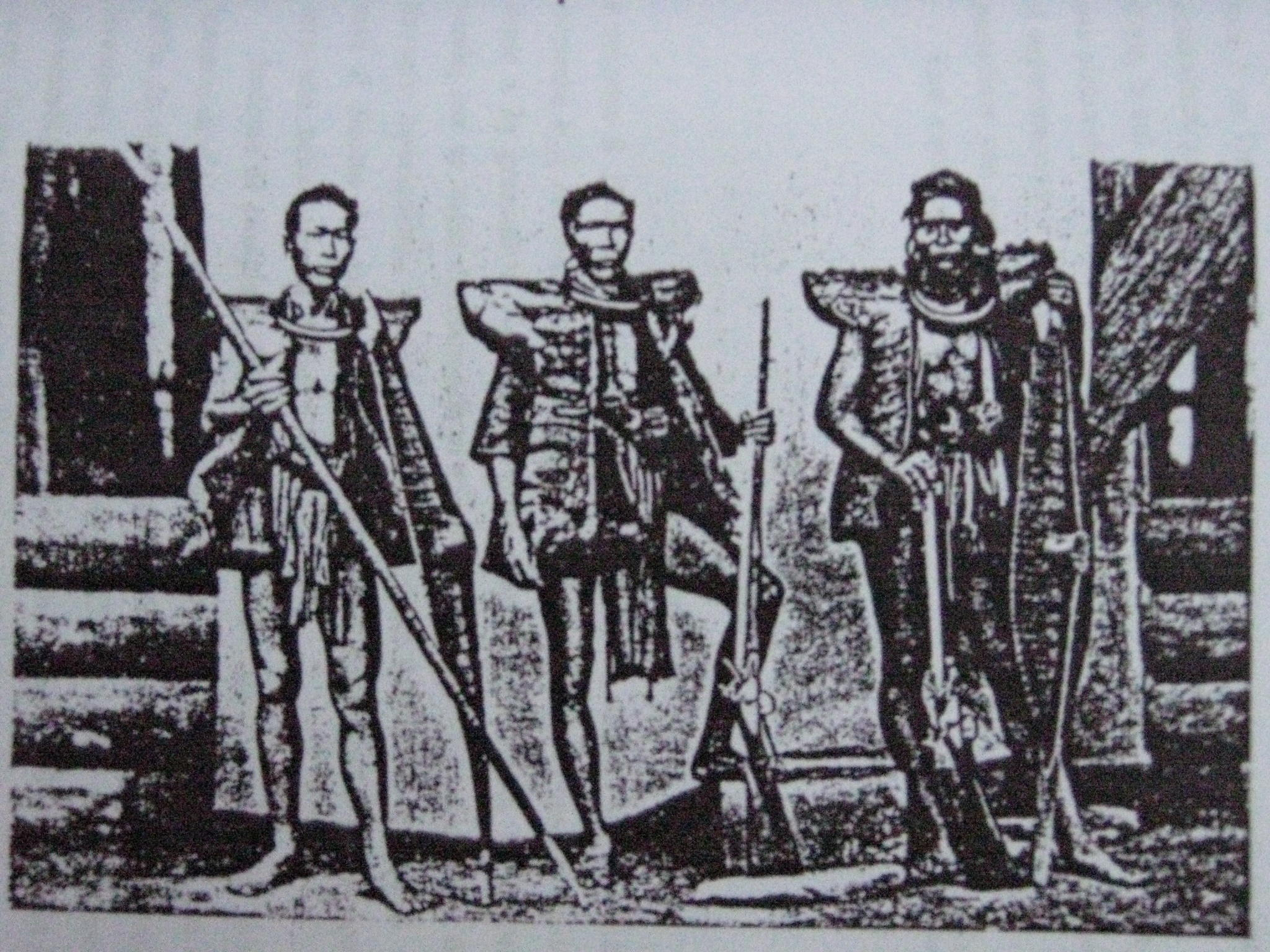 Warriors from the village of Hili Dimaetano, Nias Island, North Sumatera